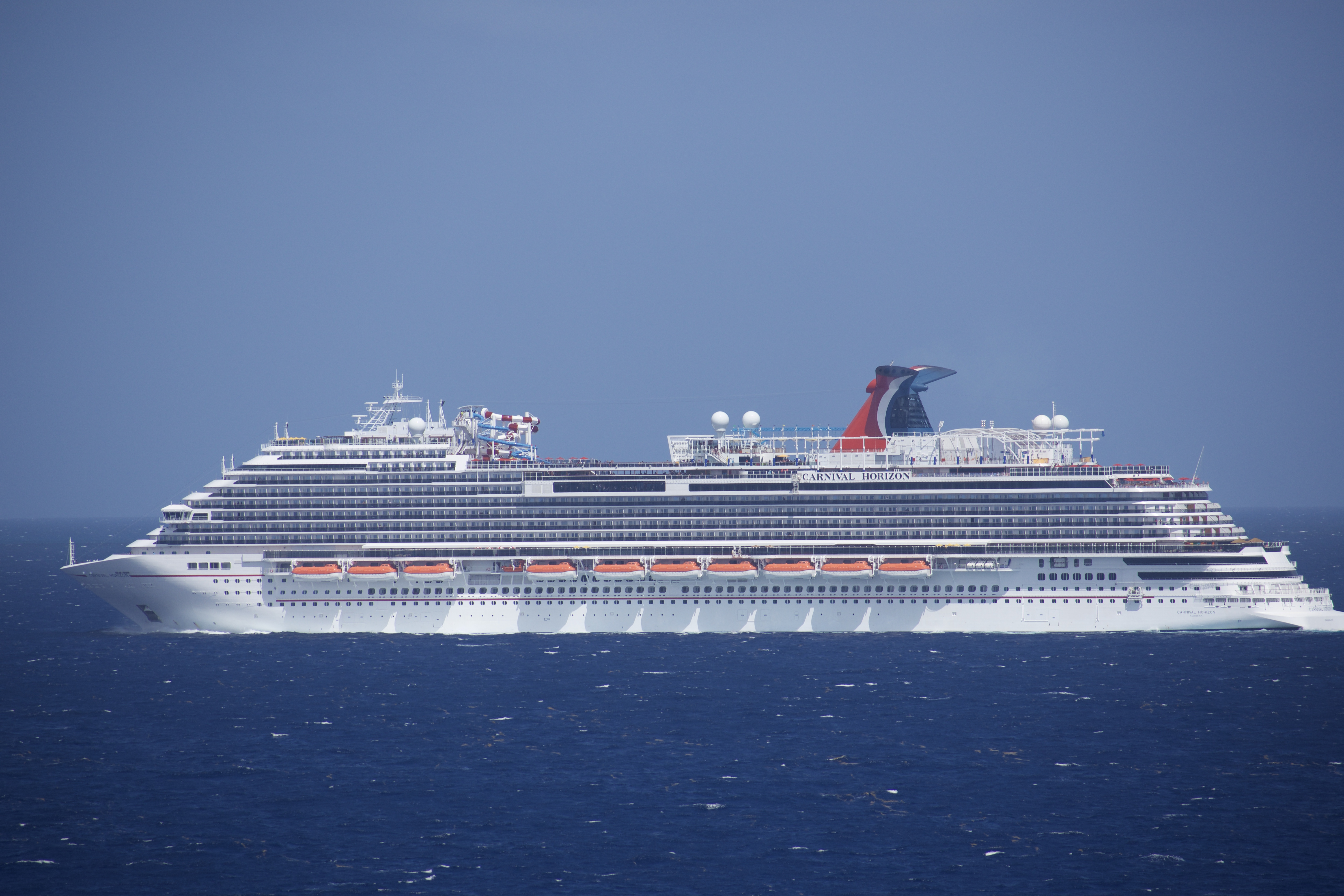 Picture taken from Carnival Vista shortly after leaving Grand Turk